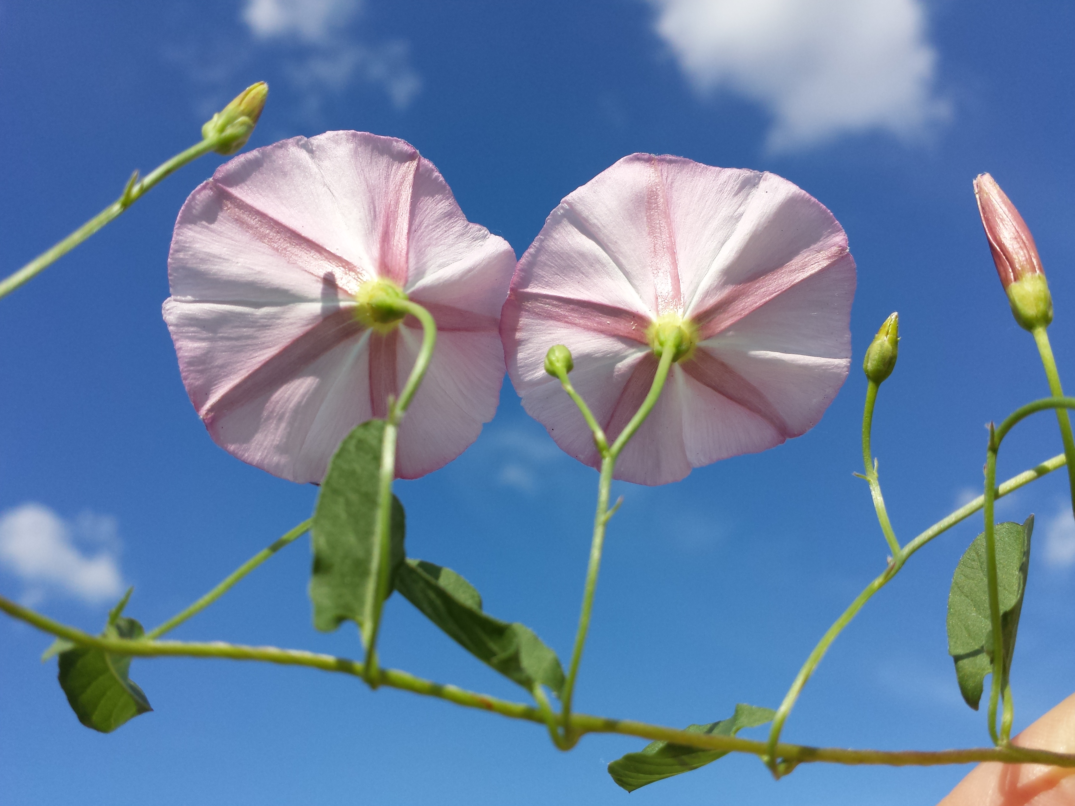 Stem with leaves and flowers Taxonym: Convolvulus arvensis ss Fischer et al. EfÖLS 2008 ISBN 978-3-85474-187-9 Location: Floridsdorf rail station, Vienna-Floridsdorf - ca. 160 m a.s.l. Habitat: ruderal area